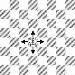 White king's cross